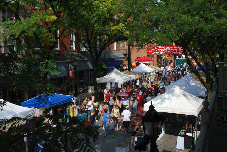 Families enjoy a stroll down Mushroom Boulevard (State Street the rest of the year), sampling mushroom products along the way.